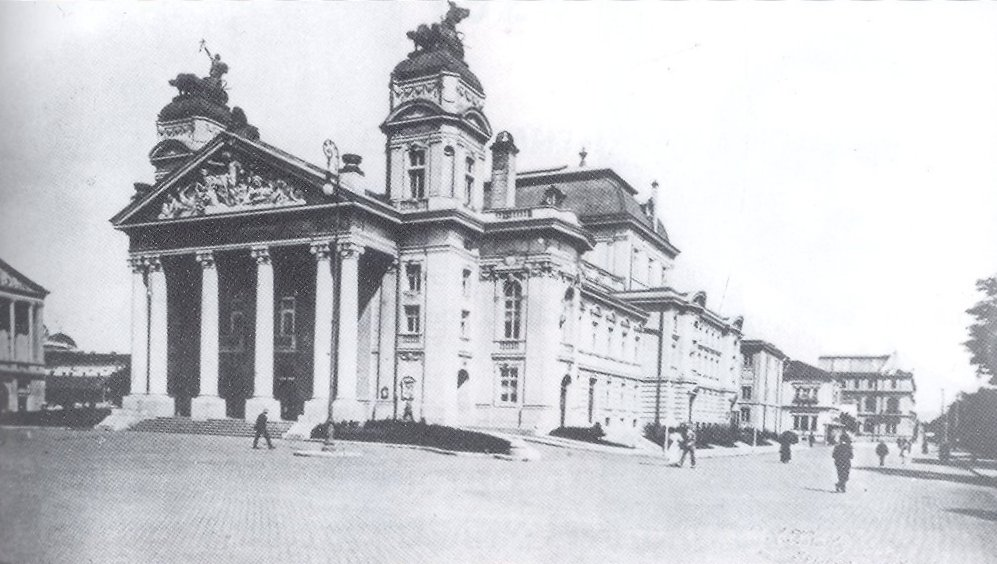 Ivan Vazov National Theatre, Sofia, Bulgaria